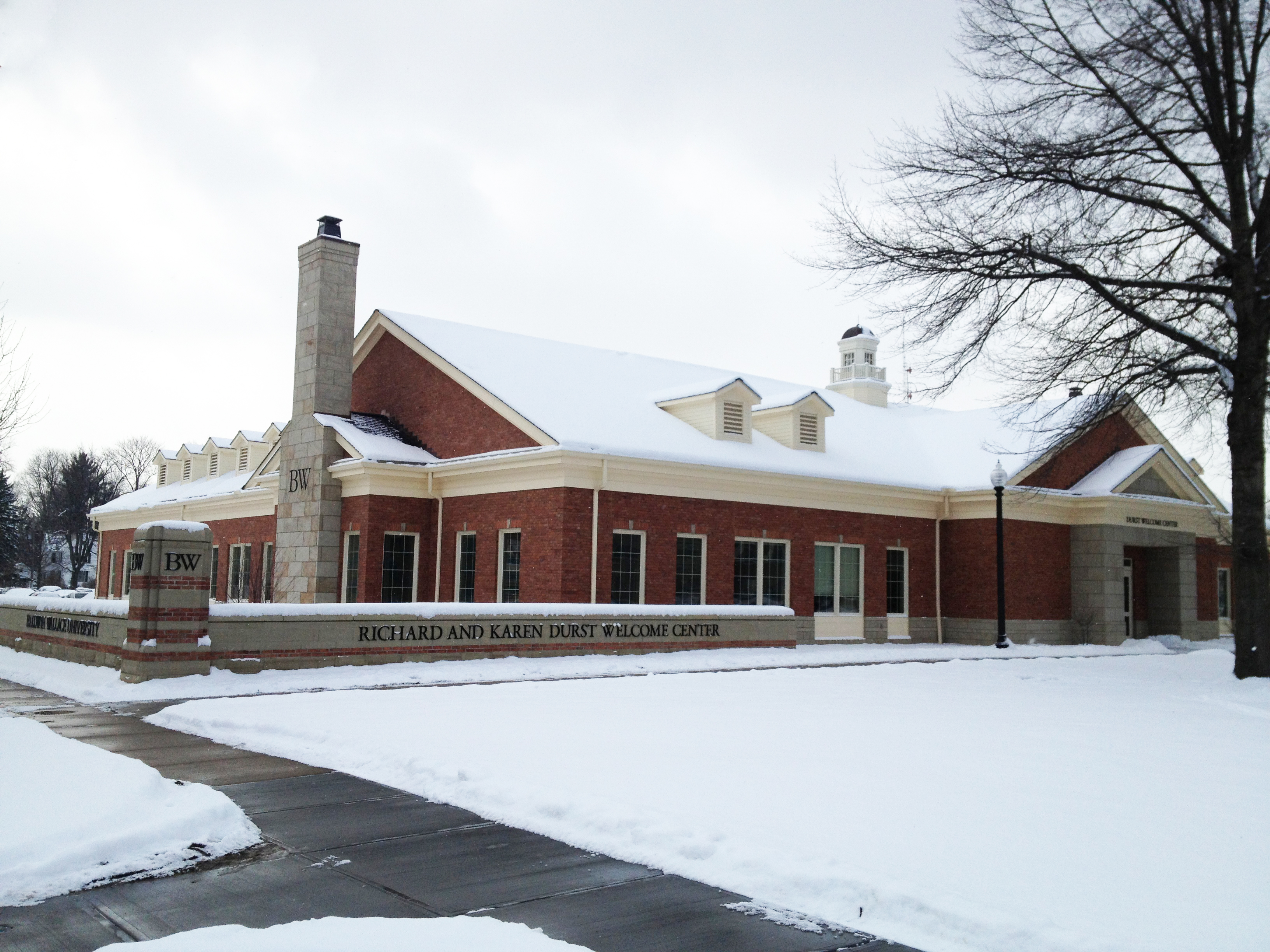 Durst Welcome Center on Baldwin Wallace University South Campus